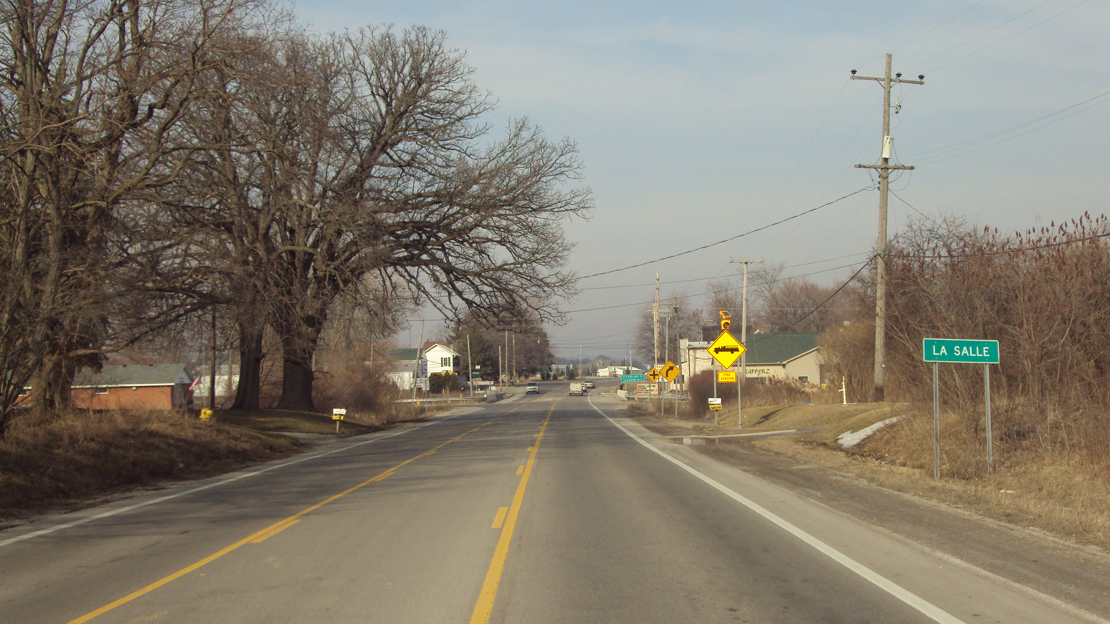 The community of La Salle along M-125